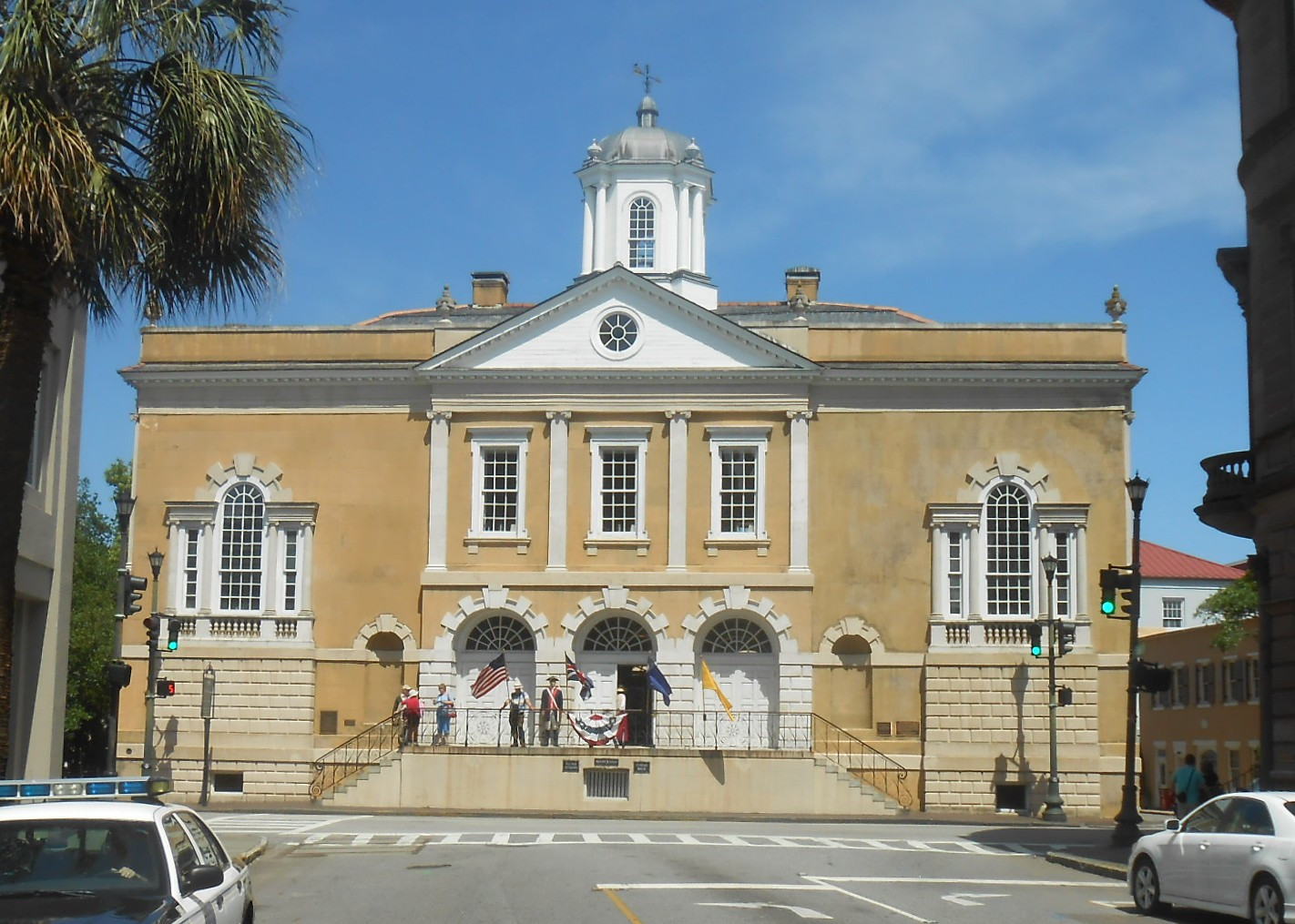 The Customs and Exchange House at the intersection of Broad St. and East Bay St. in Charleston, South Carolina.